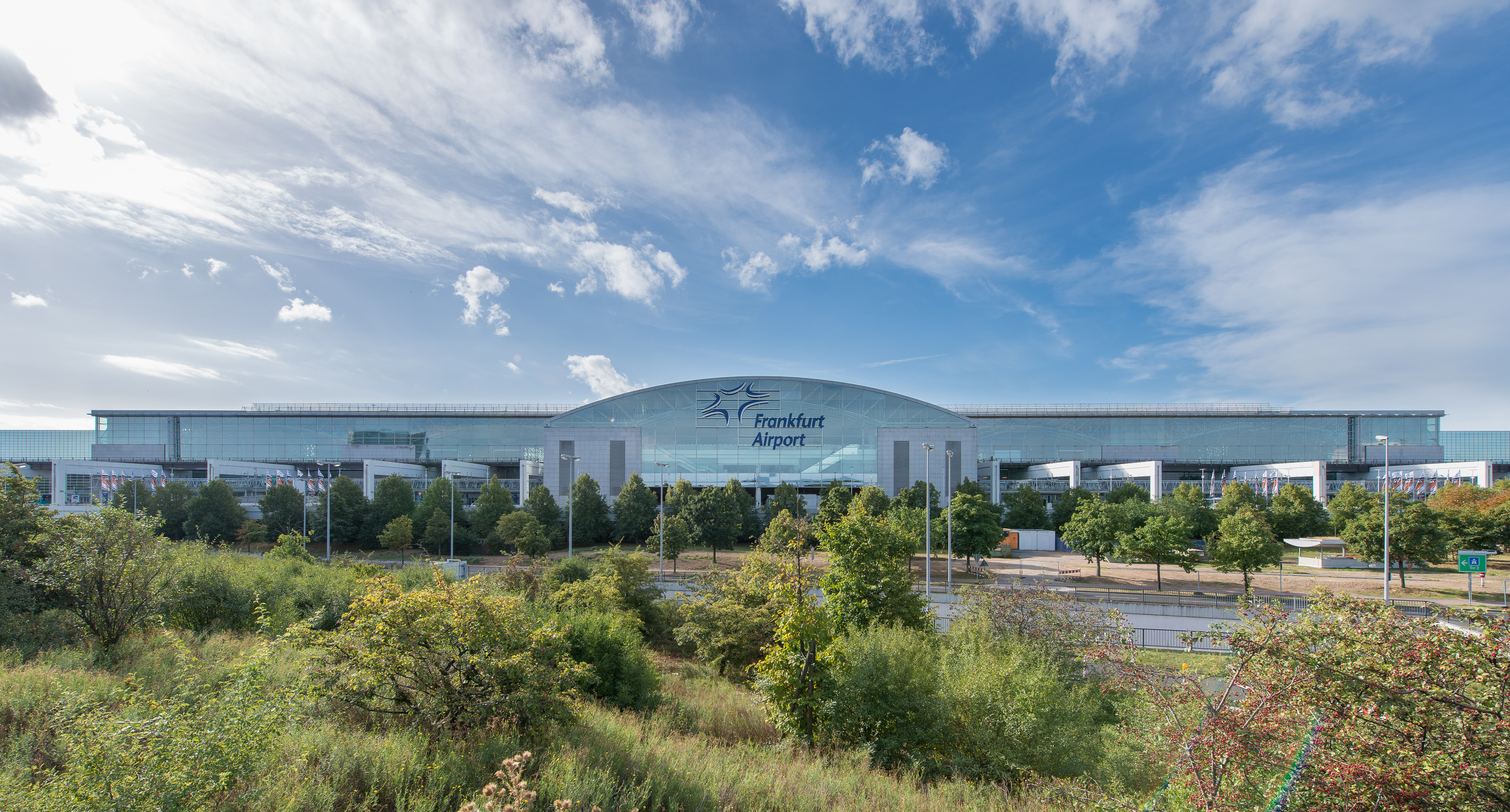 Frankfurt am Main, Airport, Terminal 2 front as seen from North (September 2013).